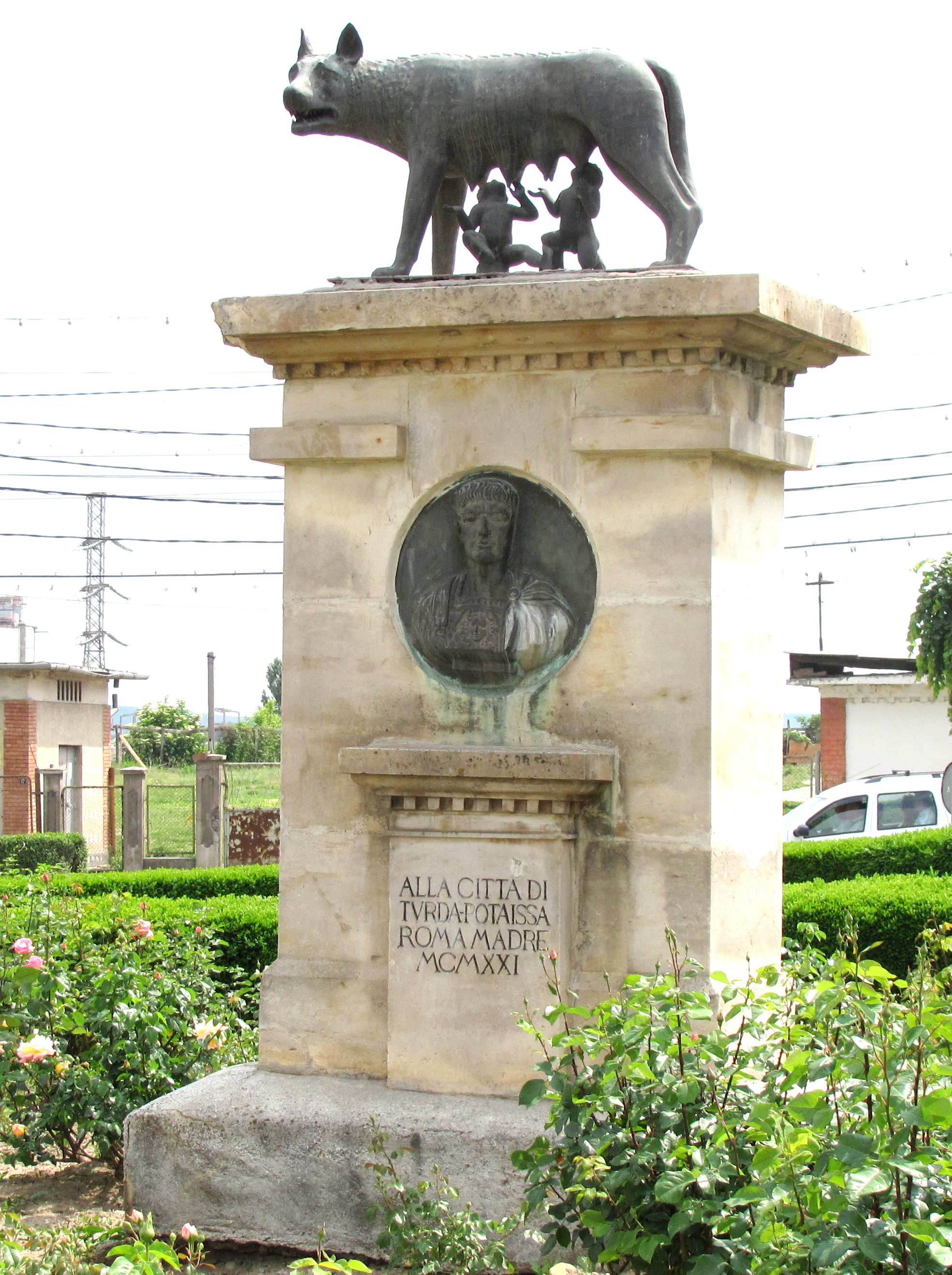 The Capitoline Wolf Statue (Roman Square)